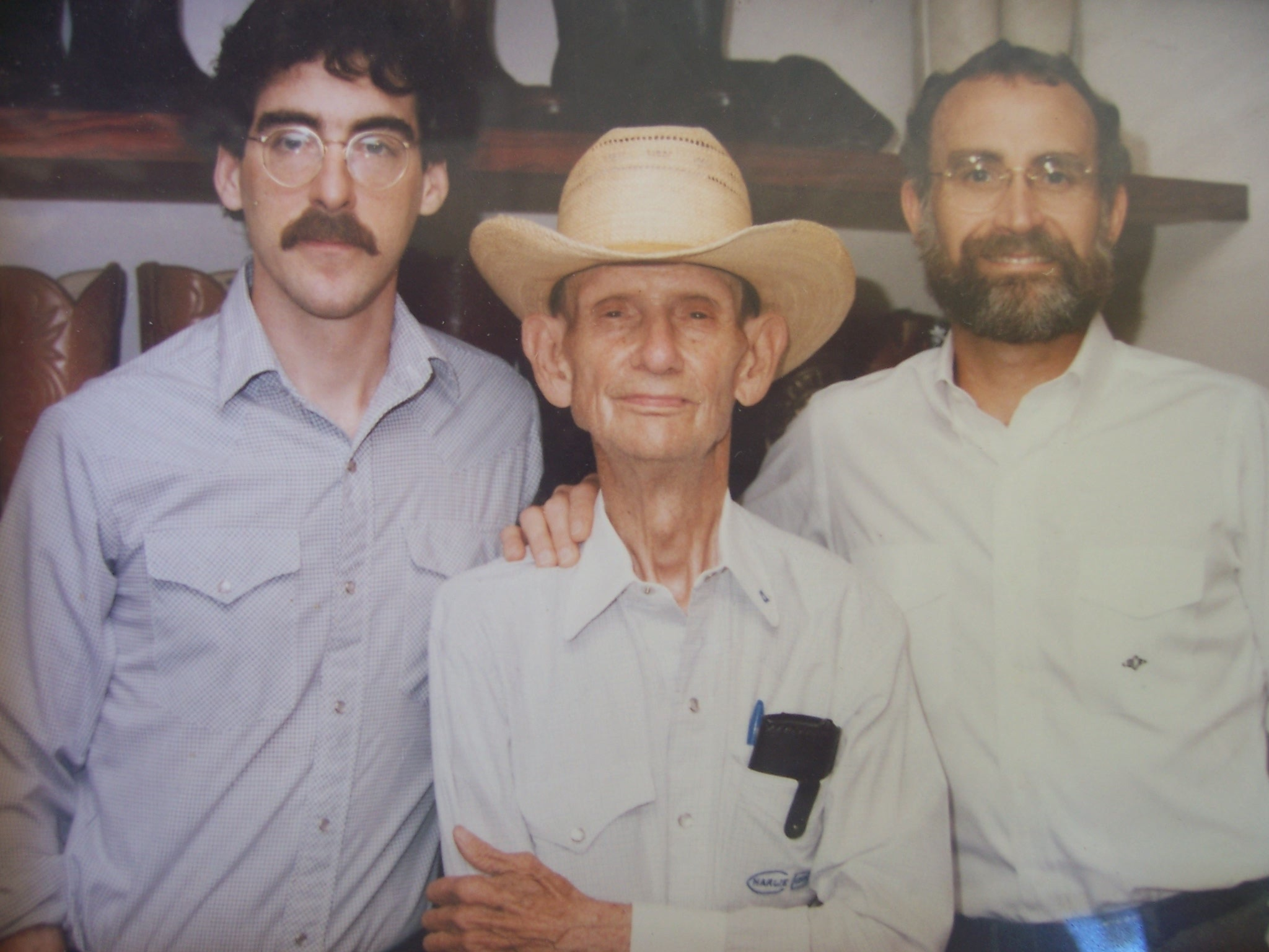 Bootmakers and financiers on Charlie Dunn's 90th birthday